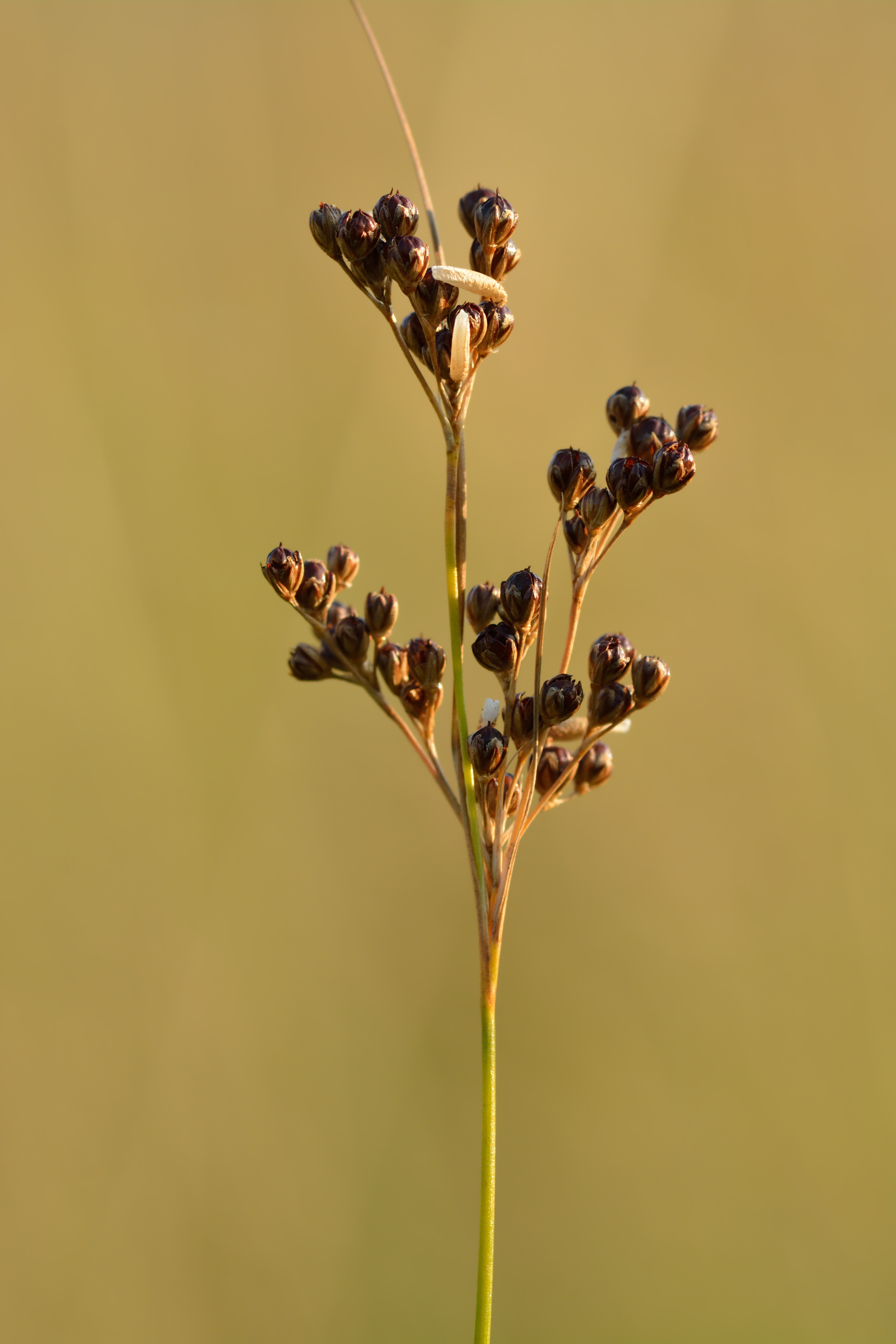 Juncus compressus - roundfruit rush in Keila, Northwestern Estonia.